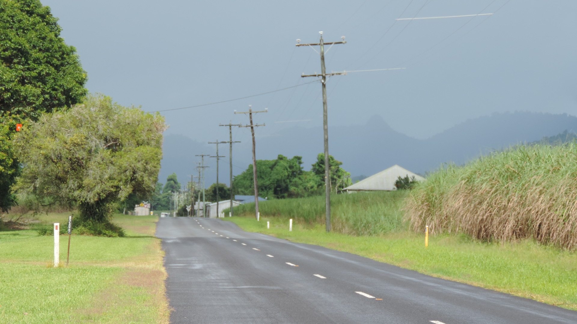 Looking down Bartle Frere Road, rain falling on distant mountains, Bartle Frere, 2018